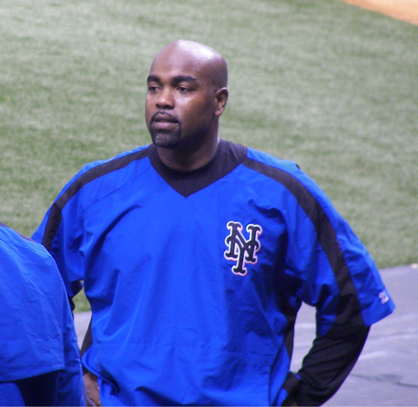 New York Mets first baseman Carlos Delgado before a Mets/Devil Rays spring training game at Tropicana Field in St. Petersburg, Florida.